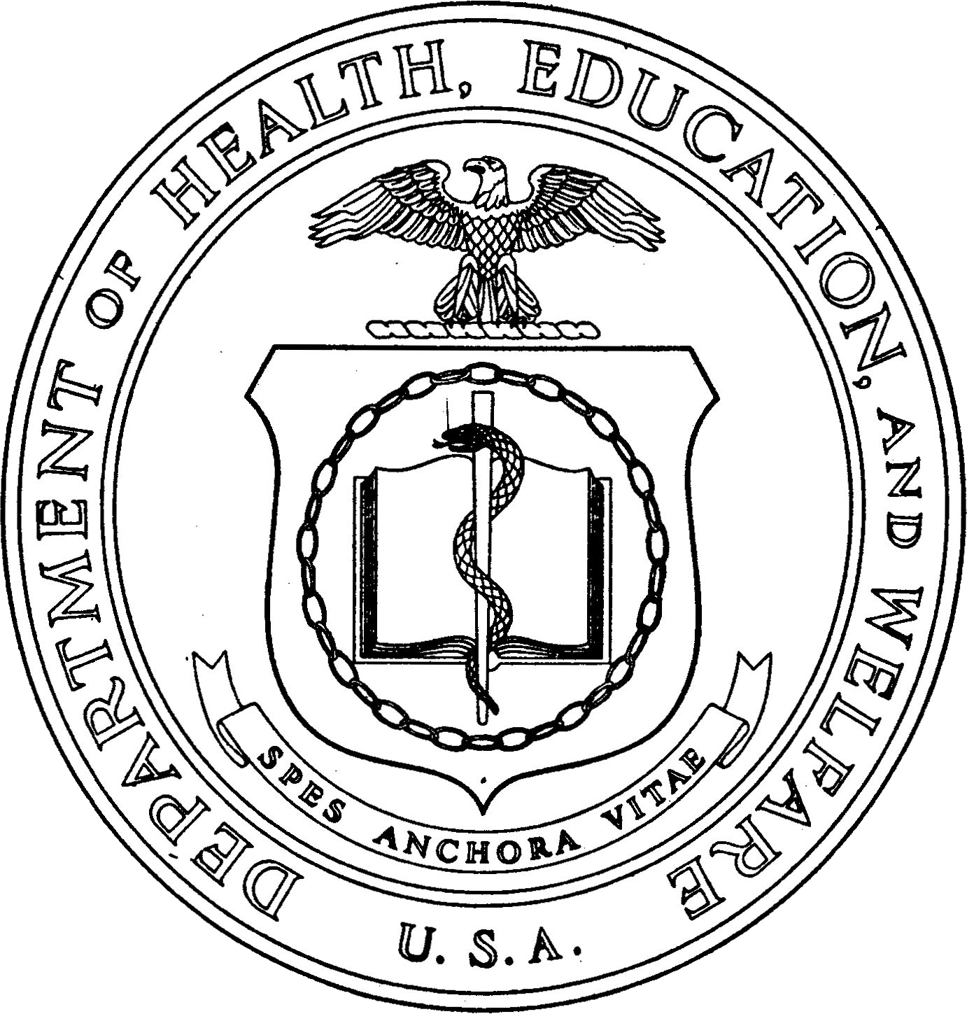 Seal of the United States Department of Health, Education, and Welfare